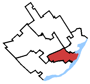 A map of Québec in relation to other Quebec City federal ridings under the 2013 representation order.